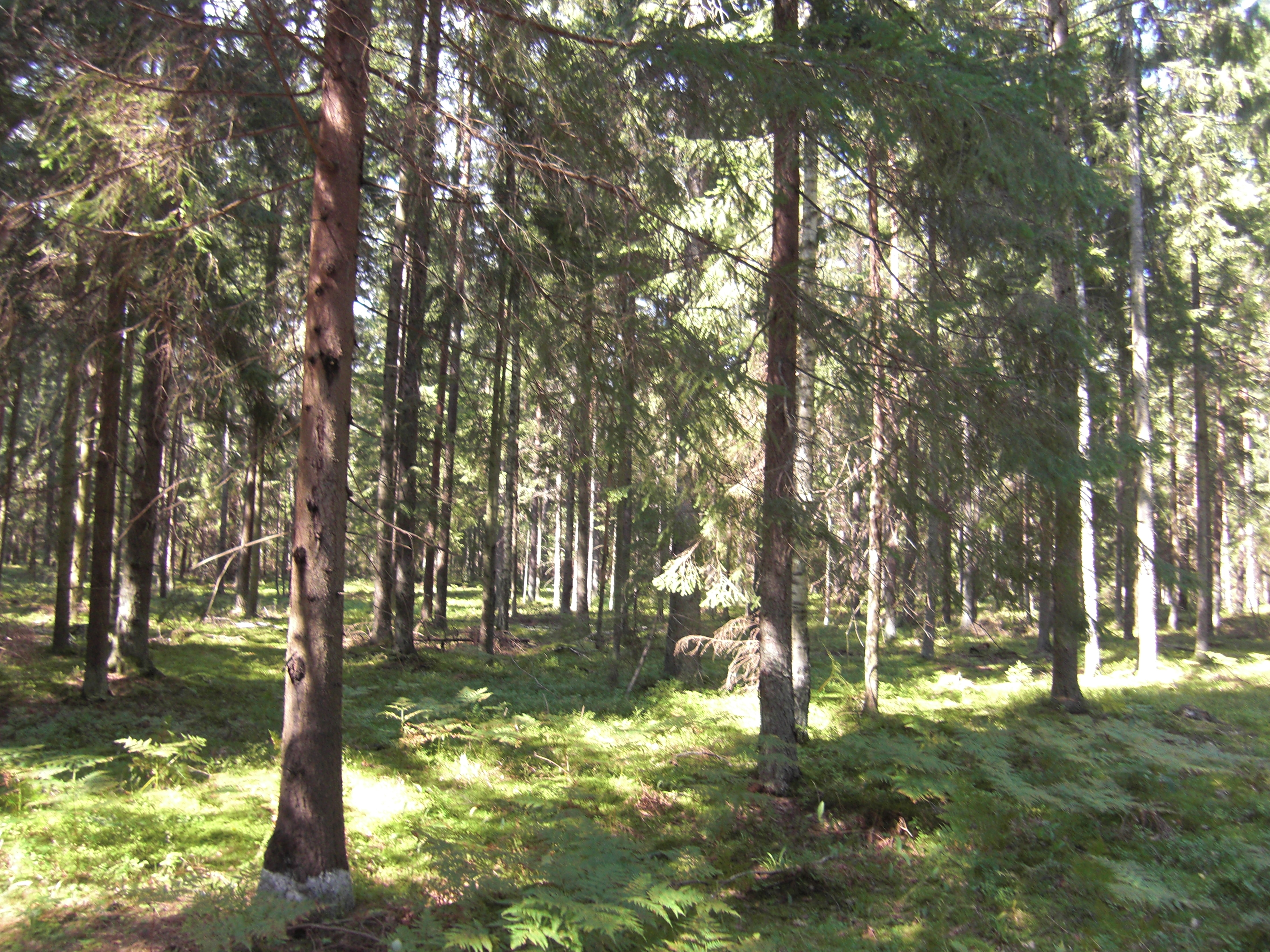 Coniferous forest in Białowieża Forest, Quarter 182C